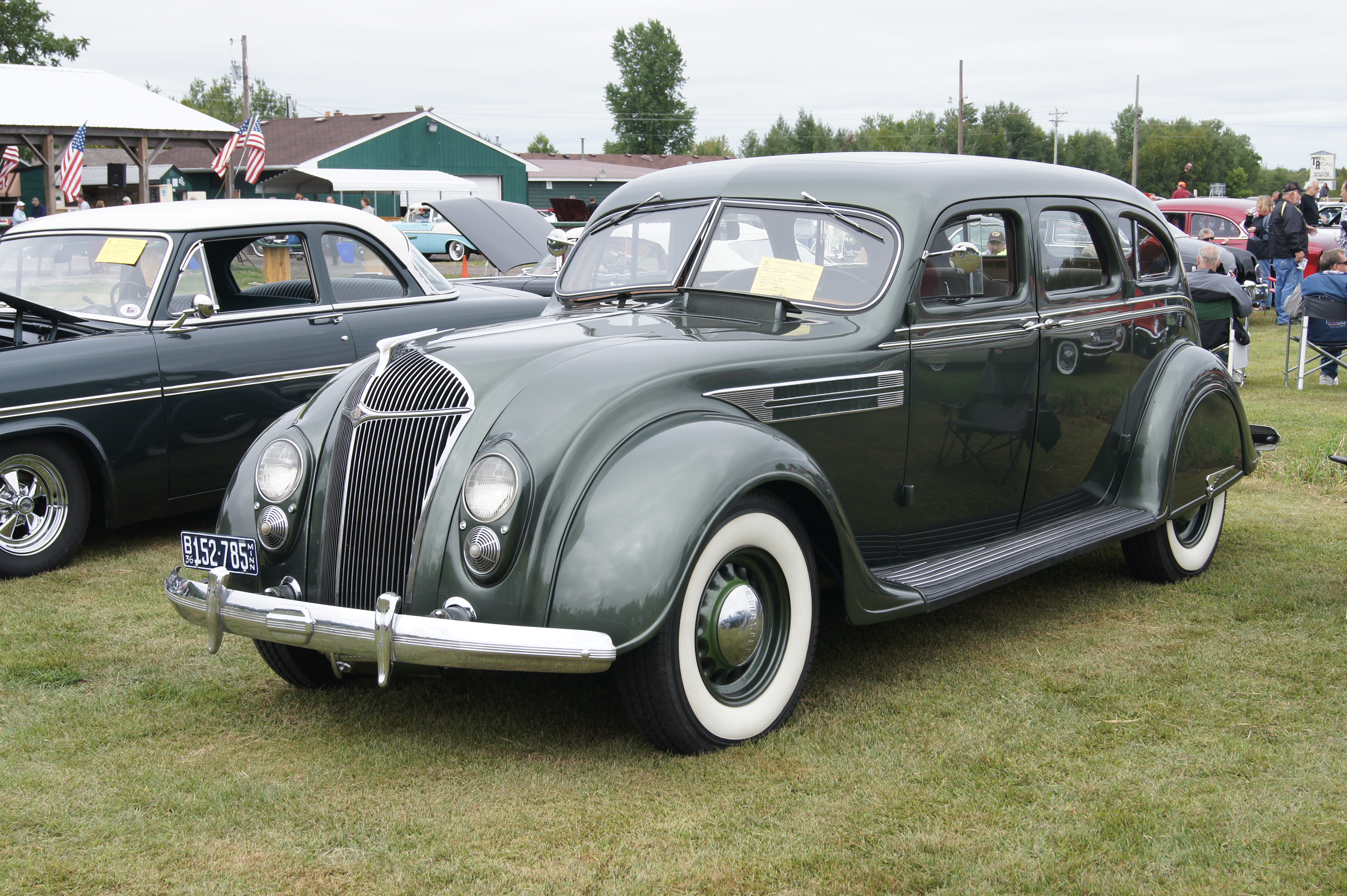 North Star Chapter Studebaker Drivers Club 13th Annual Labor Day Car Show September 2, 2013 Blacksmith Lounge Hugo, MN More Car Pictures